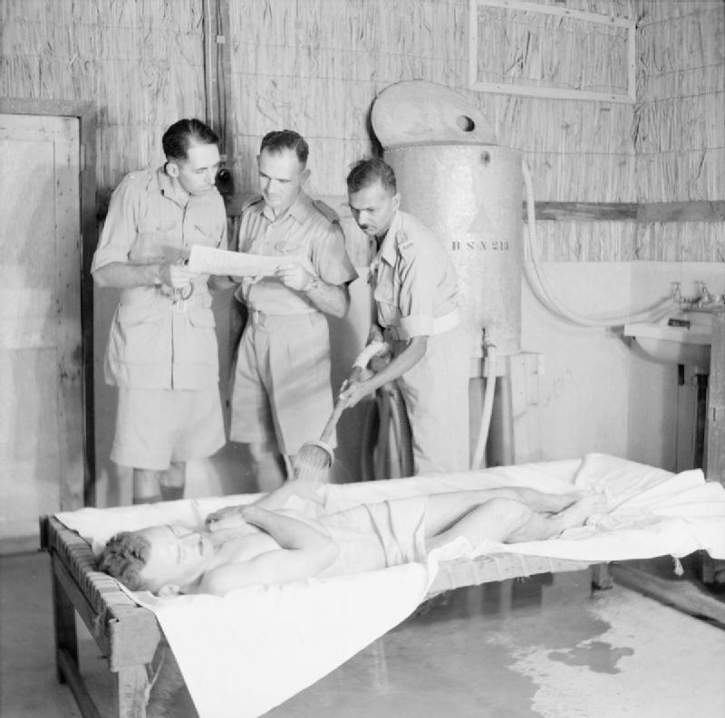 The British Army in the Middle East 1943 One of a series of photographs demonstrating the treatment given for sufferers of heat stroke in Iraq. This patient is being sprayed with cool water, 20 September 1943.